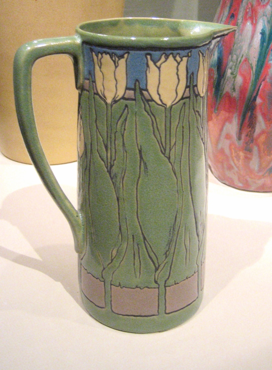 Paul Revere Pottery of the Saturday Evening Girls' Club (United States (Massachusetts, Boston), 1907 - 1942) , Sara Galner (United States, 1894 - 1982) Pitcher, 1914 Ceramic, Earthenware, Height: 7 3/4 in. (19.69 cm); Diameter: 5 1/2 in. (13.97 cm) Gift of Max Palevsky (AC1995.250.30) Wikipedia Loves Art at the Los Angeles County Museum of Art This photo of item # AC1995.250.30 at the Los Angeles County Museum of Art was contributed under the team name "artifacts" as part of the Wikipedia Loves Art project in February 2009. Los Angeles County Museum of Art The original photograph on Flickr was taken by Beesnest McClain—please add a comment to the original Flickr page whenever a use has been made on Wikipedia or another project. Project galleries on Flickr: this institution, this team